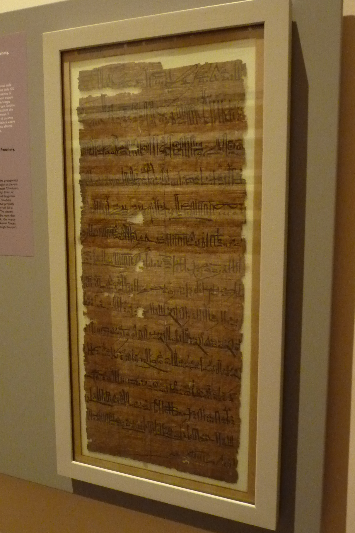 Ancient Egyptian papyrus containing a royal decree in epistolary form issued by pharaoh Ramesses XI and addressed to the viceroy of Kush Panehesy who, at this time, was militarily occupying Thebes. In the letter, Ramesses XI asks Panehesy to collaborate with the steward Yanusa, in order to obtain some Nubian goods. Some time later, Panehesy's lack of discipline will lead to his fall of favor. Reign of Ramesses XI, late 20th Dynasty, end of the New Kingdom, Turin, Museo Egizio, C.1896.